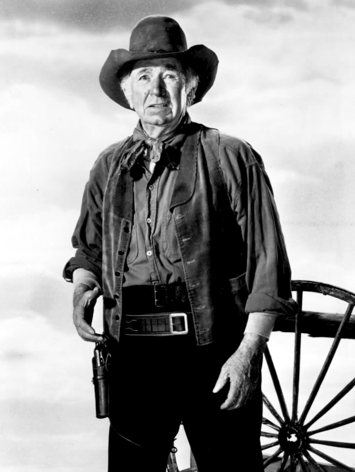 Photo of Walter Brennan from the television program The Guns of Will Sonnett.